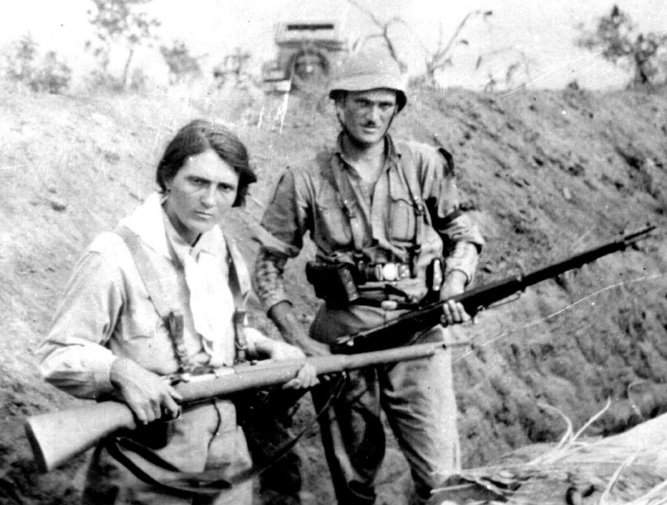 Maria Sguassabia and her Brother Antônio in the trenches